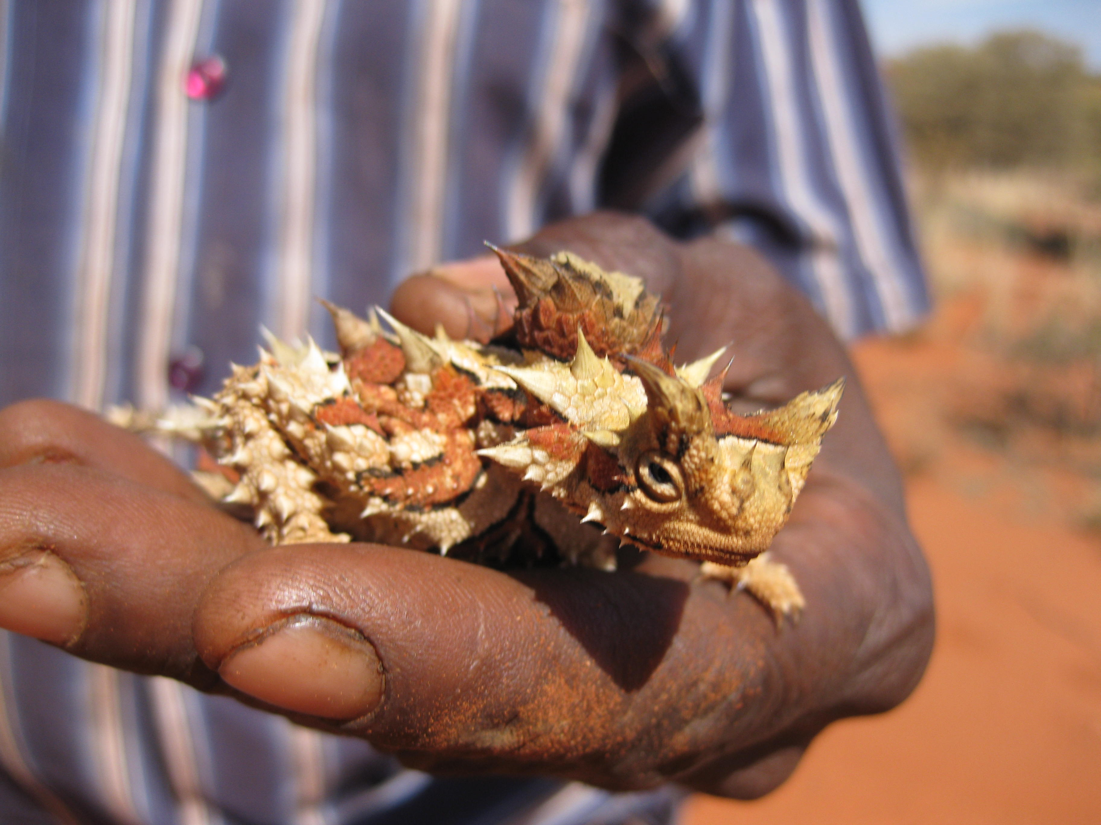 Thorny devil (Moloch horridus) is the Angas Downs mascot, occuring widely accross the property. Angas Downs rangers save these beautiful lizards from being squashed on the road. Leo Armstrong, Angas Downs Ranger, holds this Thorny Devil. Also known as mountain devil.